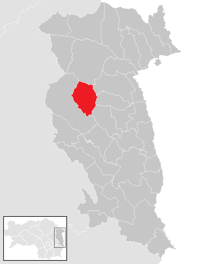 district Hartberg-Fürstenfeld